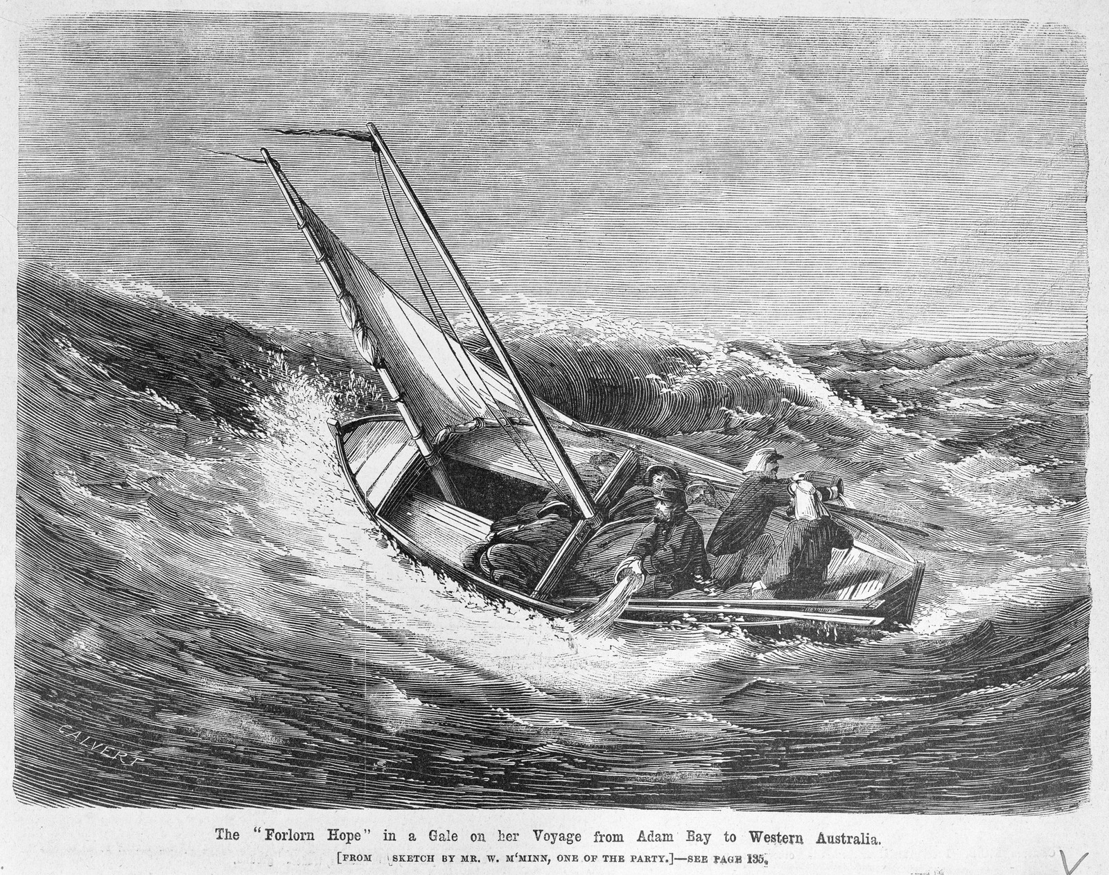 A wood engraving as published in a Melbourne magazine in 1865, depicting a small open boat in heavy seas. Seven men are aboard: three sitting up and four lying down.